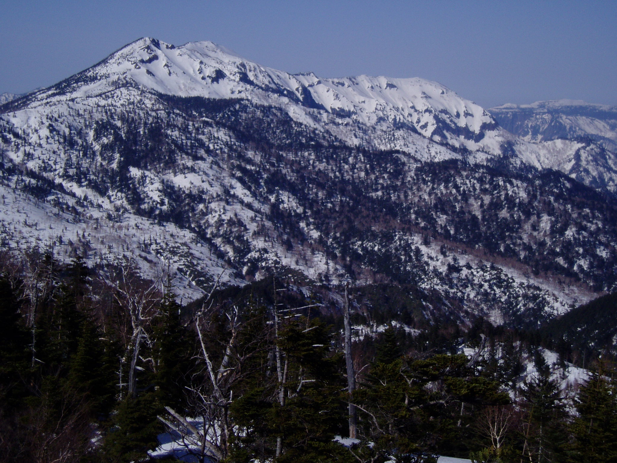 Mount Iwasuge (left) and Ura-Iwasuge (right) seen from the SSW in Nagano Prefecture, Japan. Taken from Mount Mount Akaishi.